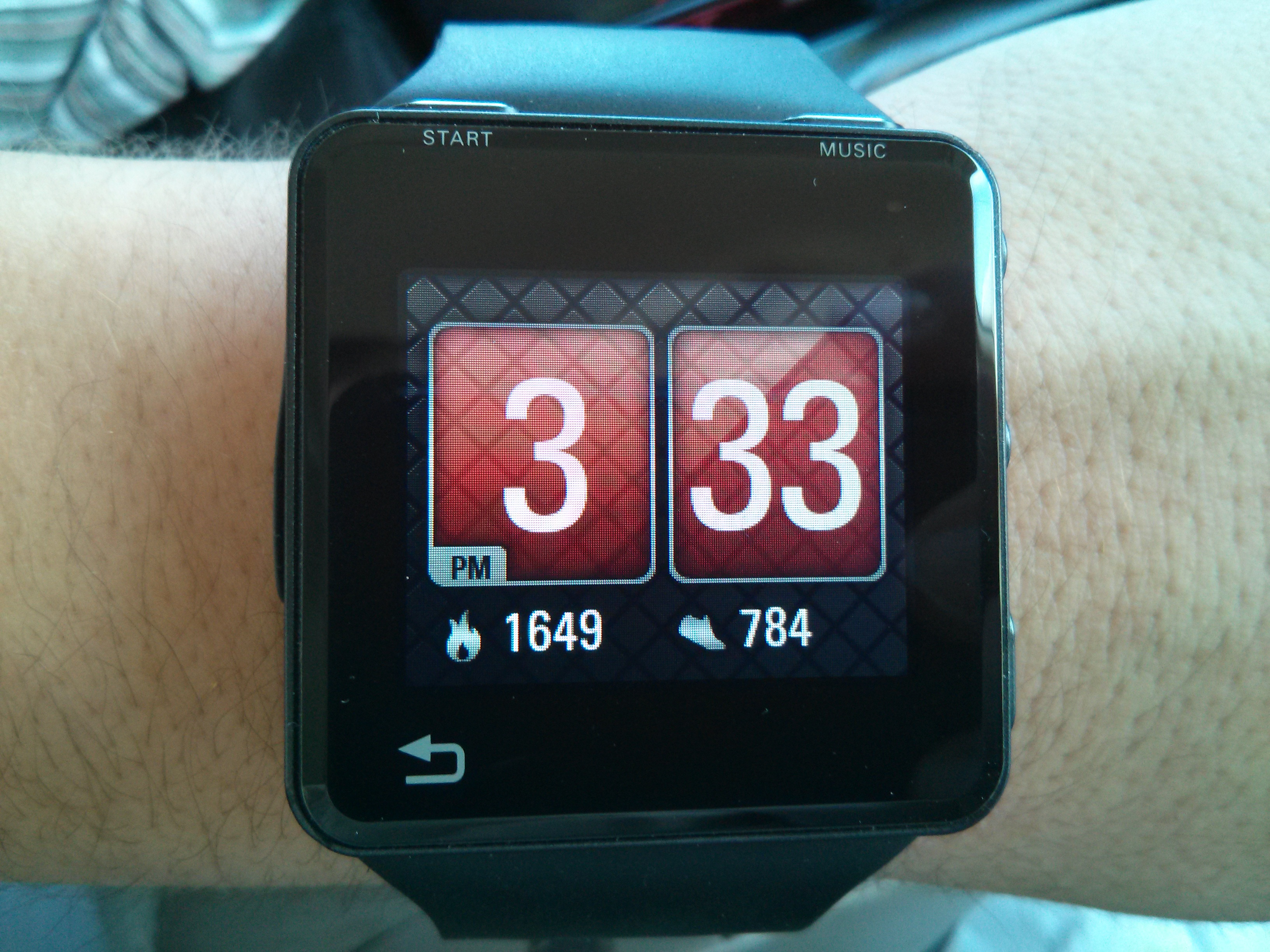 Image of Motoactv SmartWatch. This photo was uploaded via Mobile Web.